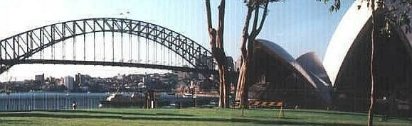 A view of the Harbour Bridge and Opera House from the Tarpeian Precinct in The Domain, Sydney.